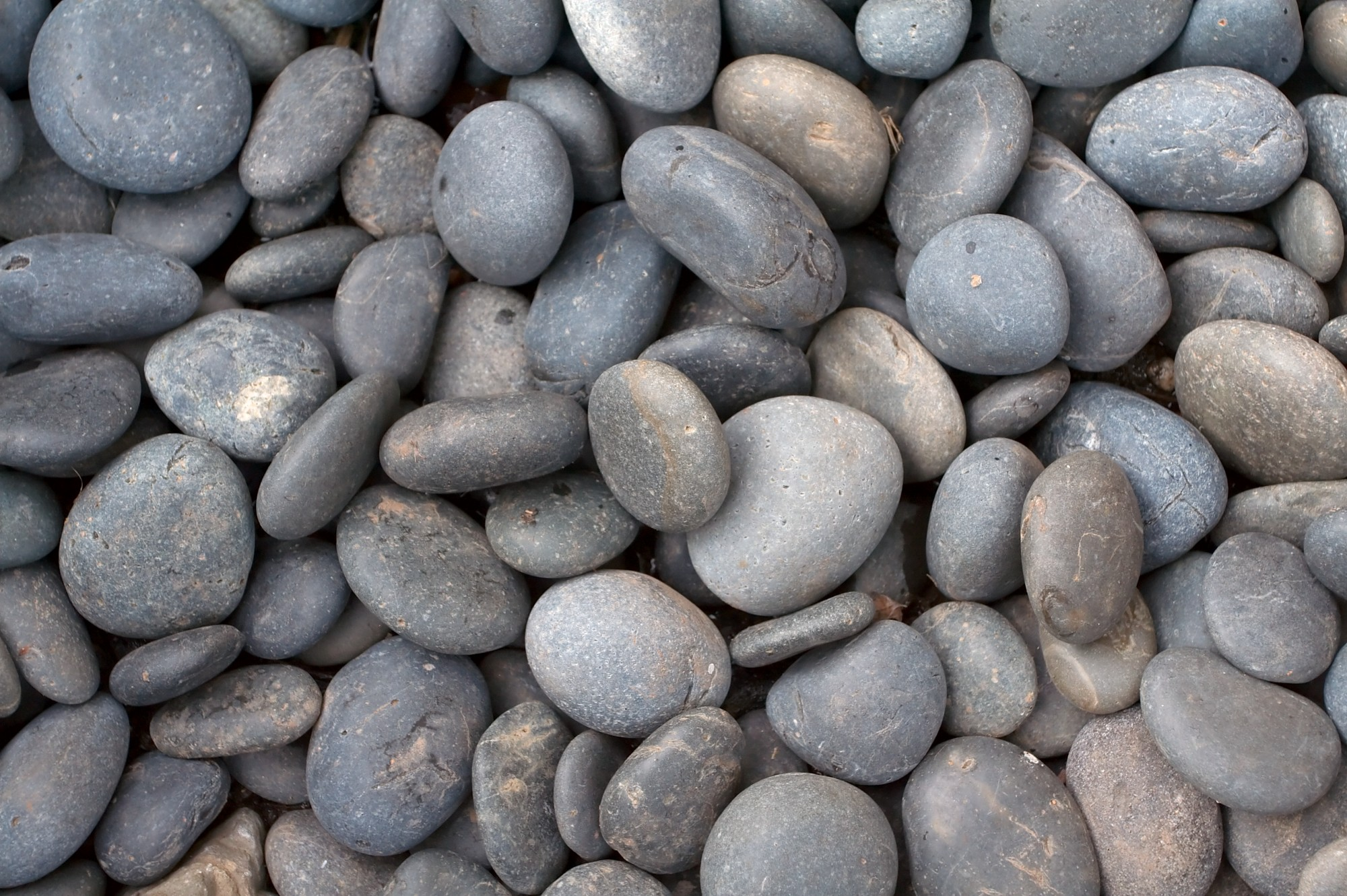 Taken at the UIUC Arboretum in Urbana, Illinois